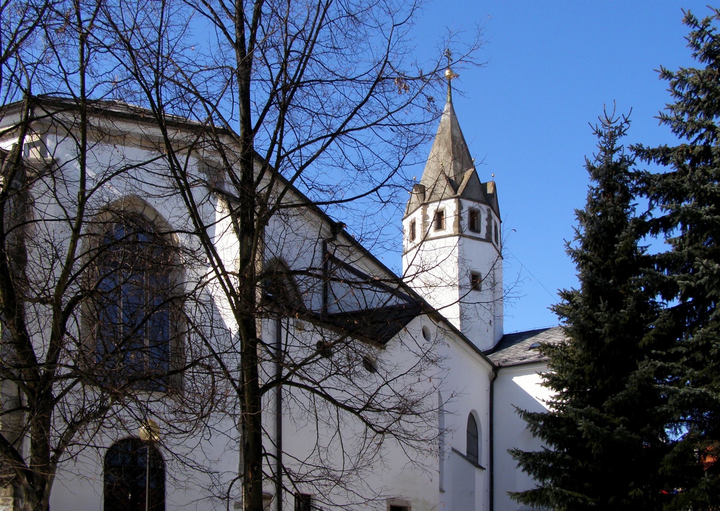 Jihlava. Church of the Assumption of the Virgin Mary